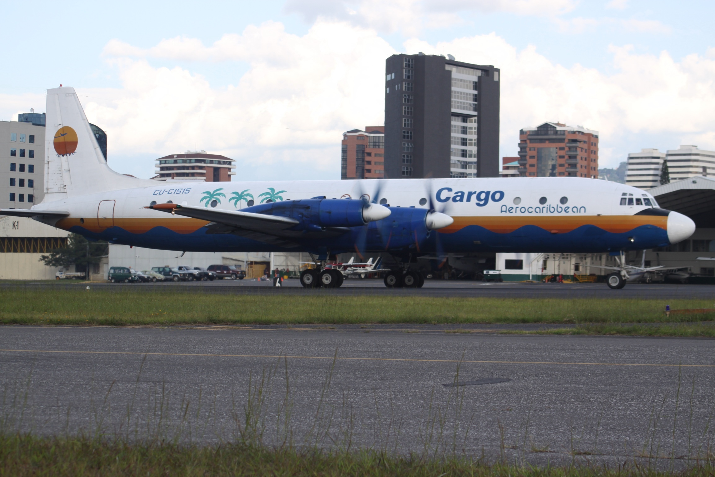 At Guatemala La Aurora International